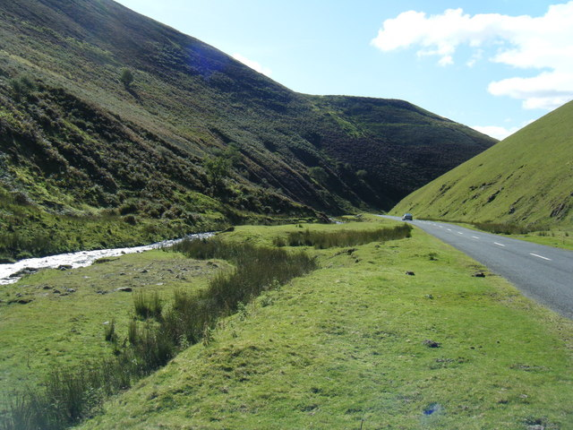 Mennock Water in Mennock Pass.